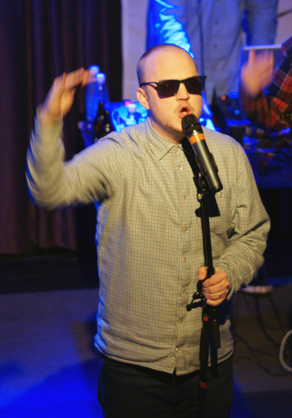 Ruger Hauer performing at Bar Kino, Pori, Finland.